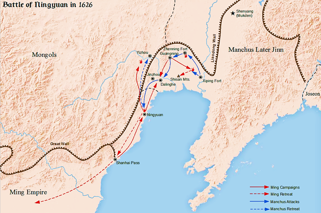 Battle of Ningyuan in 1626 between Ming dynasty and Manchus